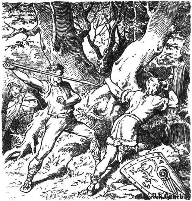 "Siegfrieds Tod" (1901) by Johannes Gehrts. During a royal hunting expedition, the hero Siegfried takes a drink from a brook while Hagen lifts his spear to impale the Siegfried's single vulnerable area, marked on his shirt, resulting in his death. Gunther looks on.